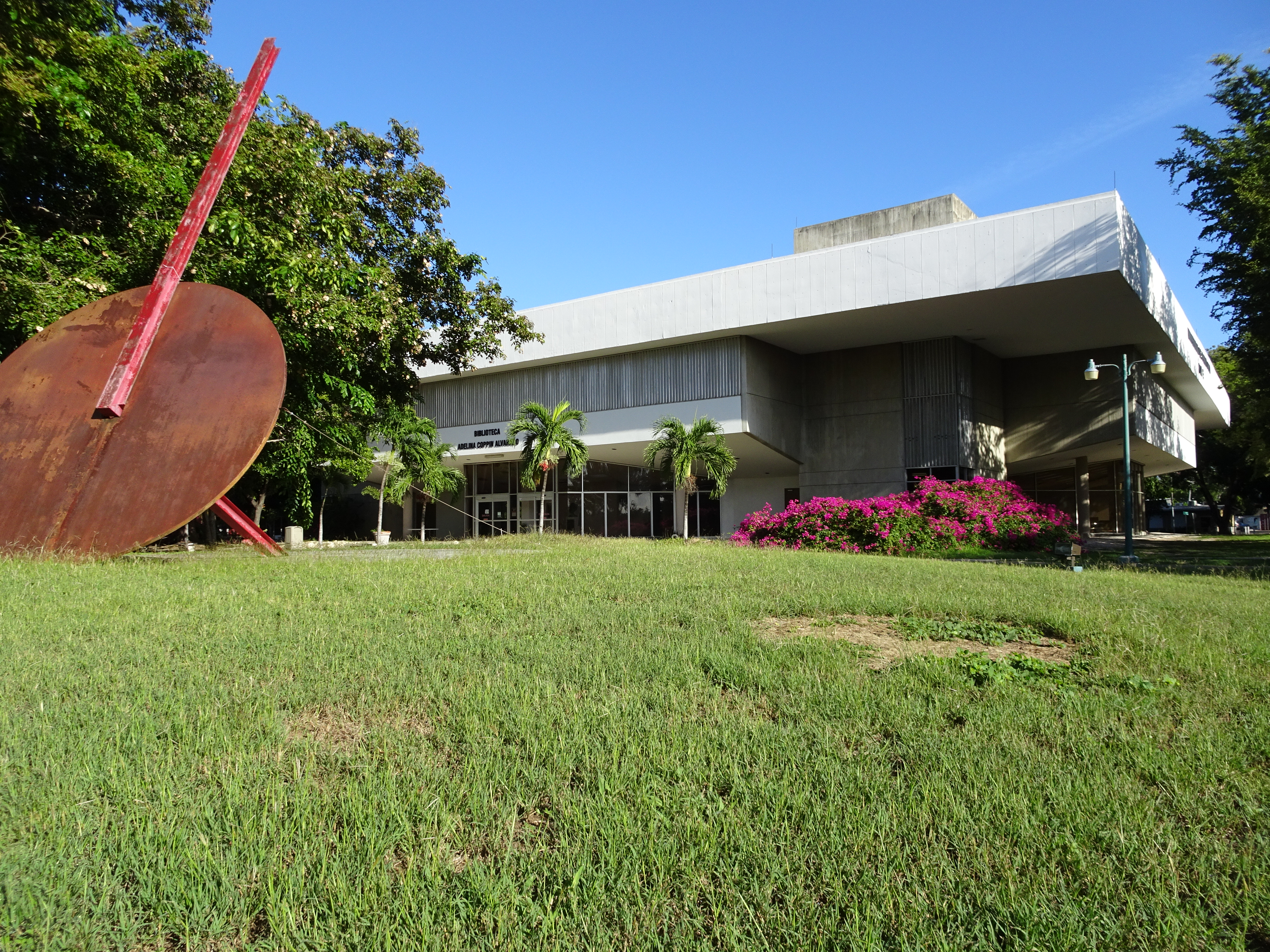 Biblioteca Adelina Coppin Alvarado, UPR en Ponce, Bo. Playa, Ponce, Puerto Rico, mirando al norte (DSC02048)